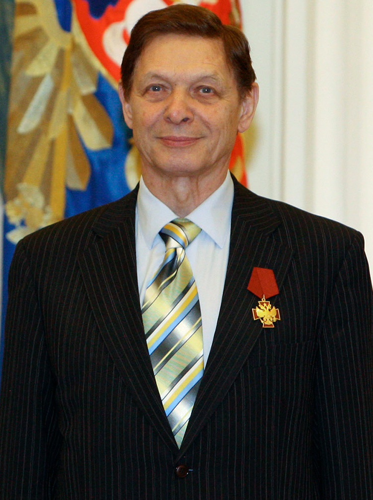 Eduard Khil, a Soviet / Russian singer.